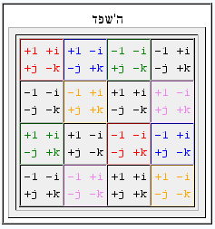 A magic square using unit quaternions.The complex number i cannot be distinguished from the complex number -i. See Galois group#Finite Abelian groups: "Gal(C/R) has two elements: the identity automorphism and the complex conjugation automorphism." Originally, I planned to use +1, -i, -j, +k values only for the binary decompositions of the values from the middle of Vollkommen perfektes magisches Quadrat#Beispiele 09 → 9-1 = 8 = 1000 would have been +1, etc.